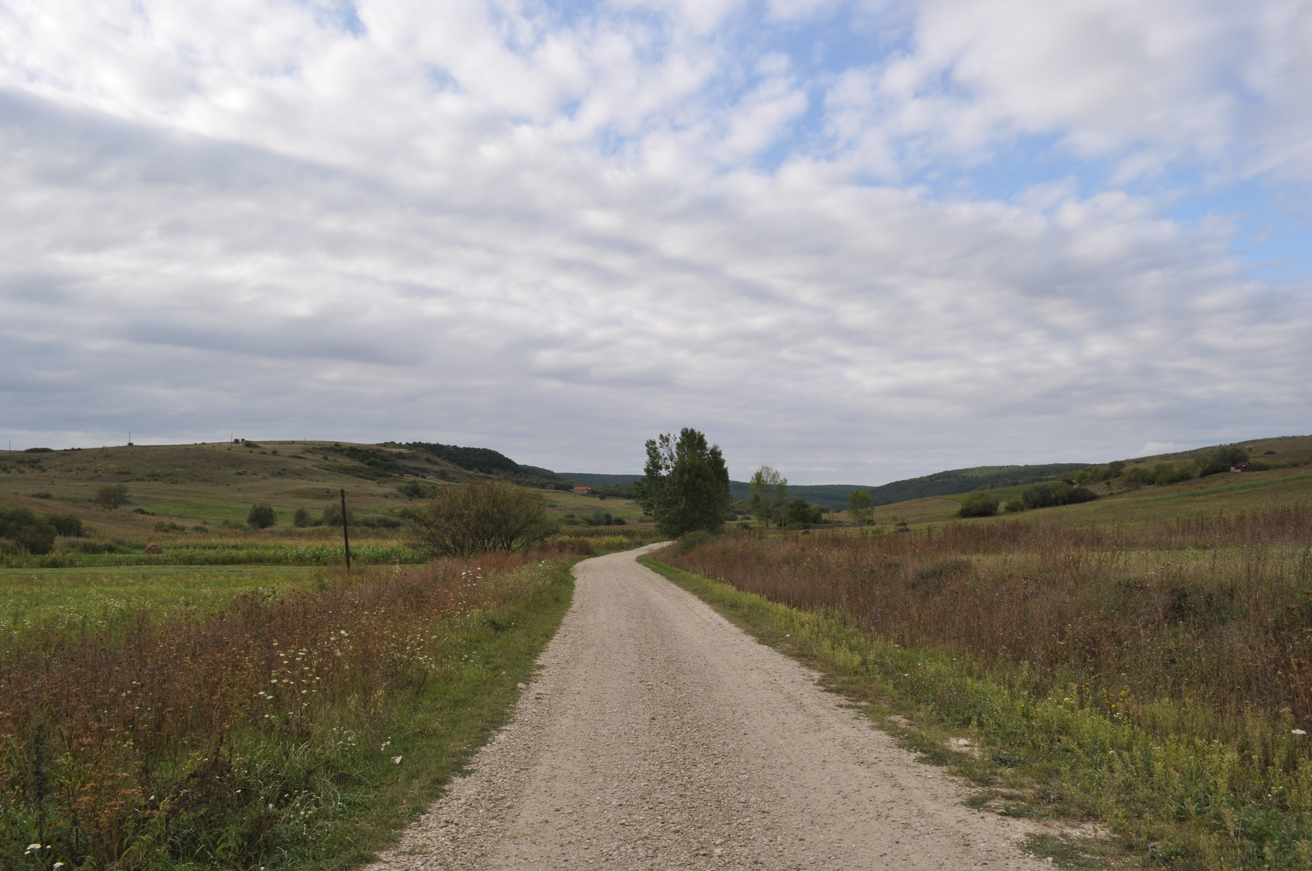 landscape near Bădești/Bádok, Cluj County, Romania